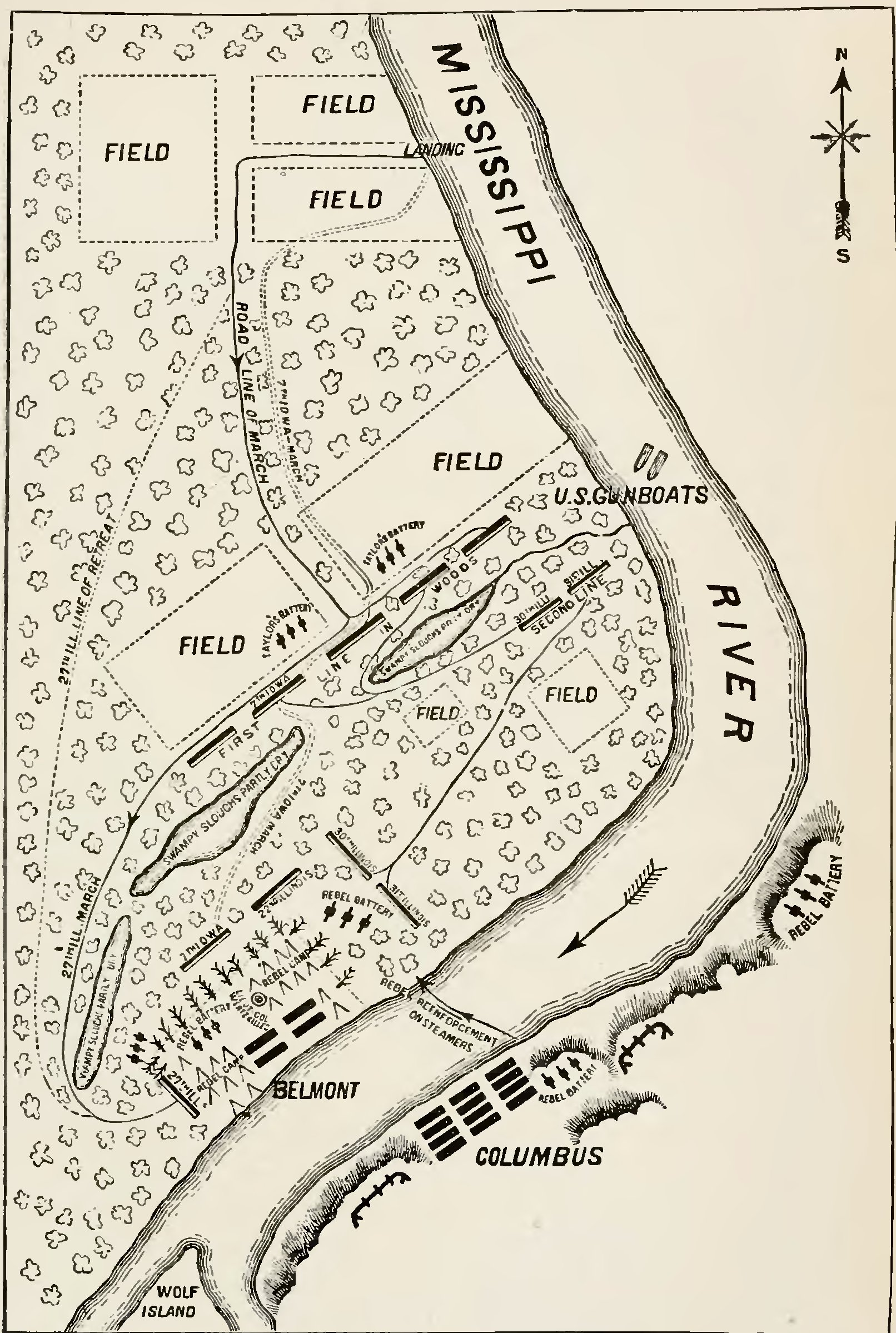 Illustration in History of Iowa From the Earliest Times to the Beginning of the Twentieth Century